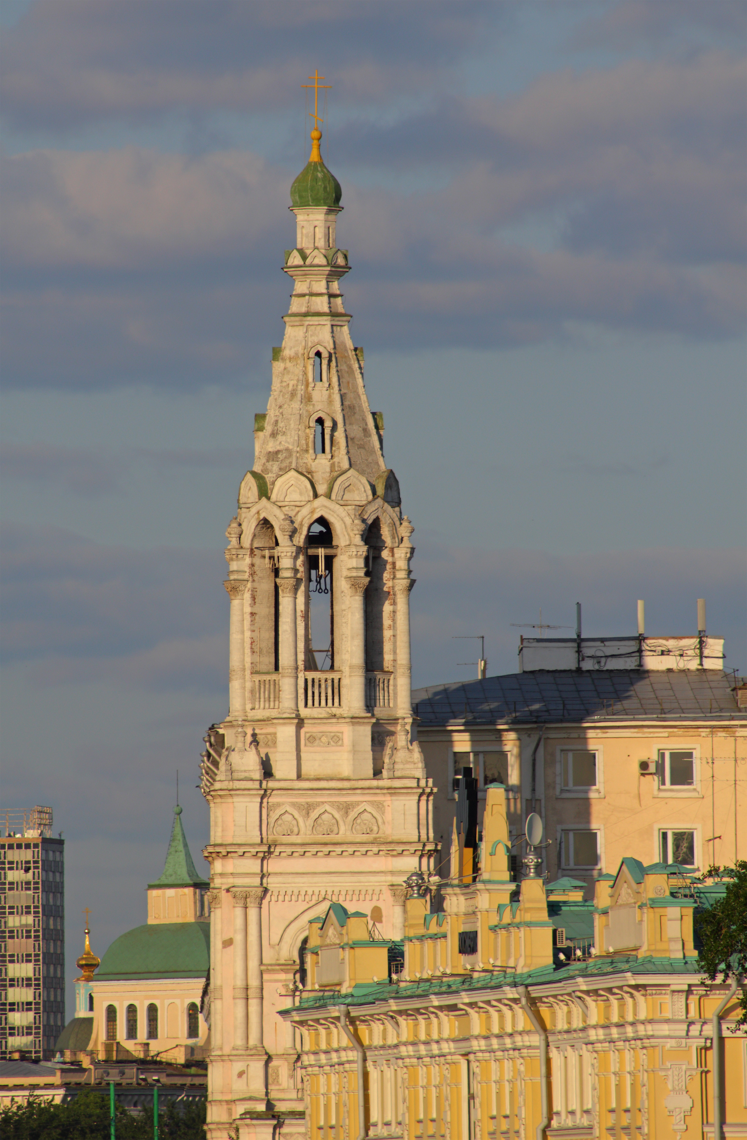 Moscow, Russia. Sofiyskaya Embankment, St. Sophia Church